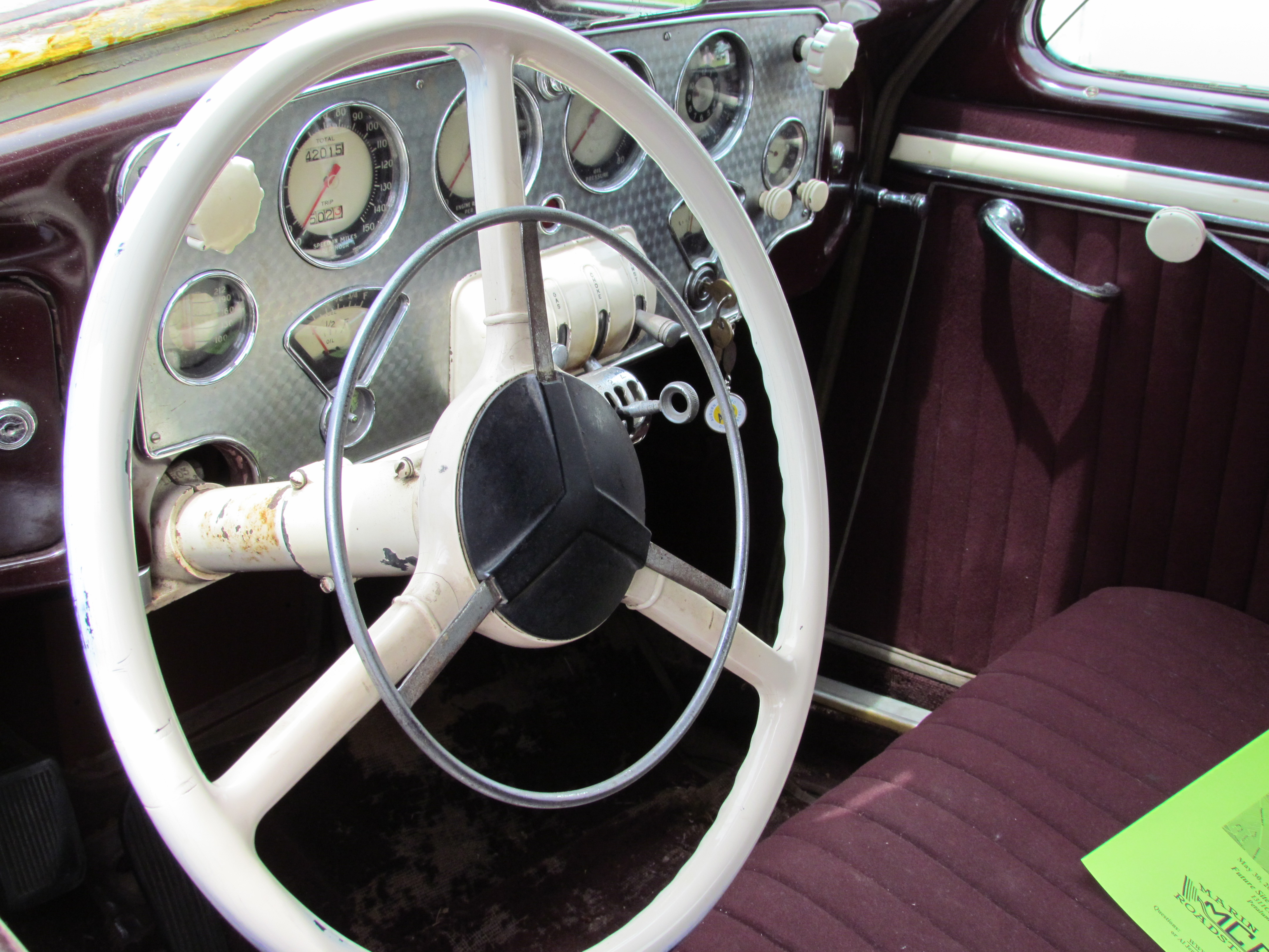 1936 Cord 810 dashboard